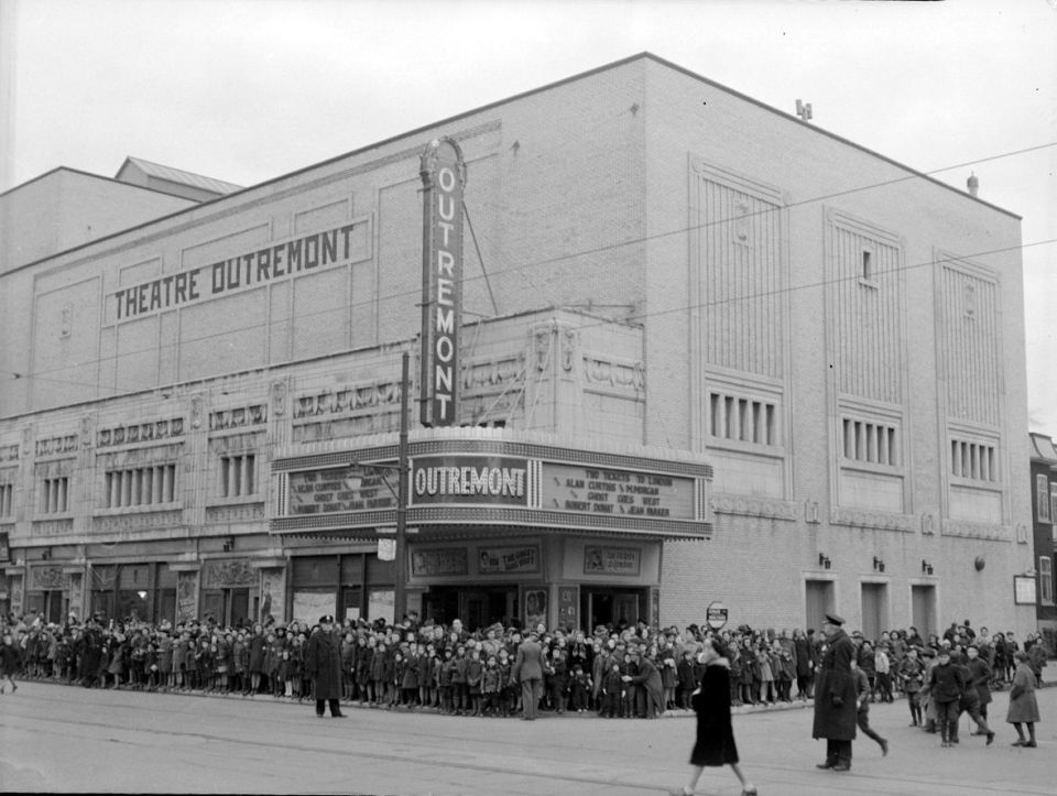 Many young people are lining up in front of the Outremont Theatre located at 1248 Bernard Avenue West in Outremont. "Two Tickets to London" and "Ghost Goes West" are the two movies playing.